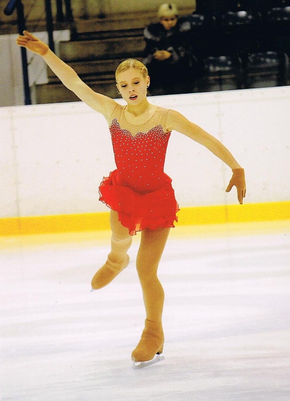 Kristine Gaile/Ventspils pērle 2013